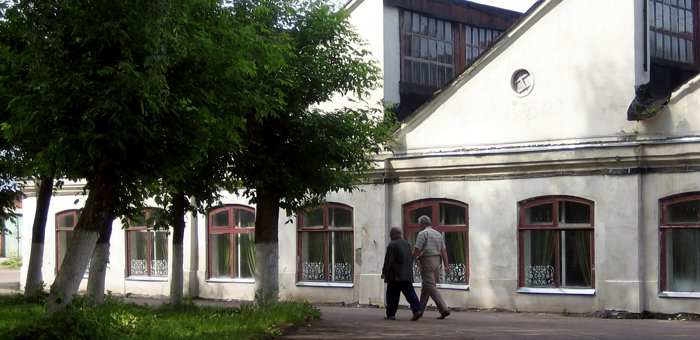 Шелкоткацкая фабрика им. Я. М. Свердлова